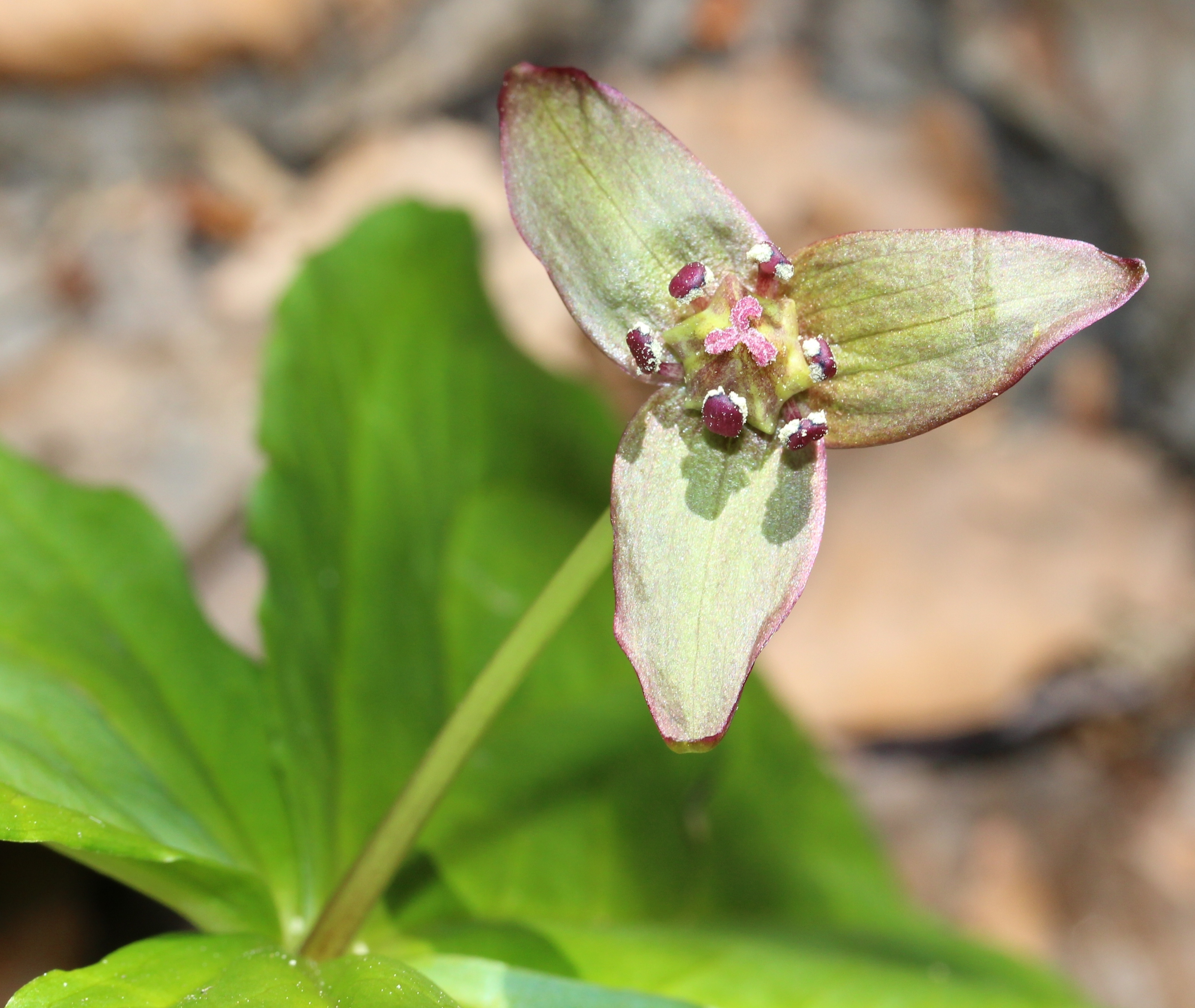 Flower of Trillium smallii, in Mount Mominuka, Gifu pref., Japan.